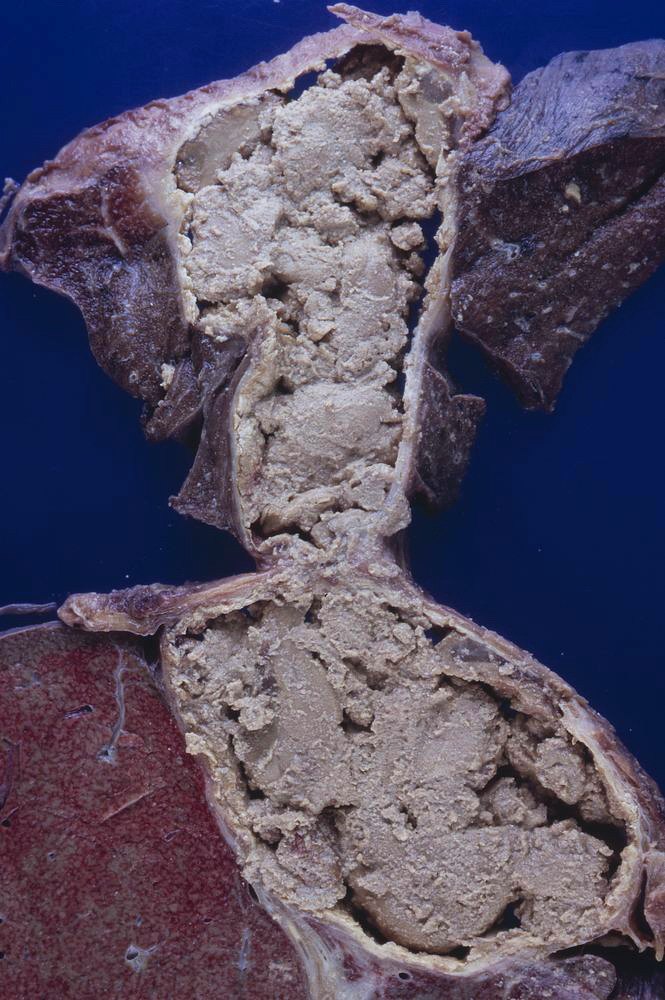 Echinococcus (hydatid) cyst involving liver and lung The involvement of both organs is the result of trans-diaphragmatic extension of the liver cyst into the lower lobe of the right lung.